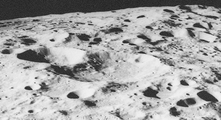 Oblique view of Nagaoka (crater), on the far side of the moon, facing north. Sun angle 15 deg, camera altitude 116 km.